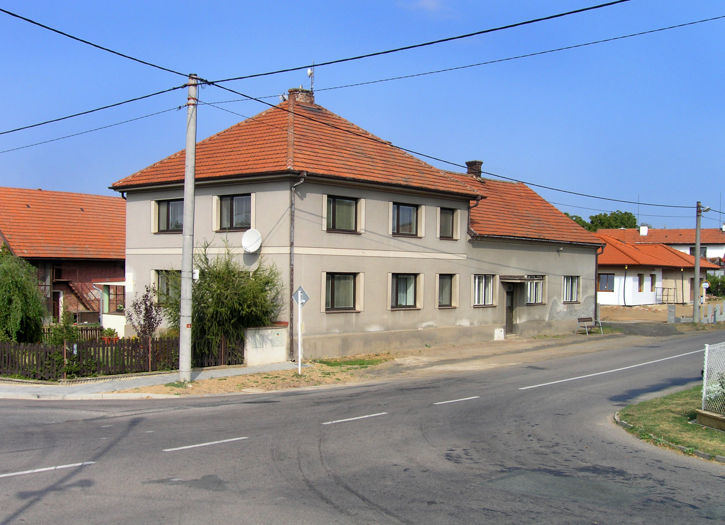 Former pub in Homyle, part of Boharyně village, Czech Republic